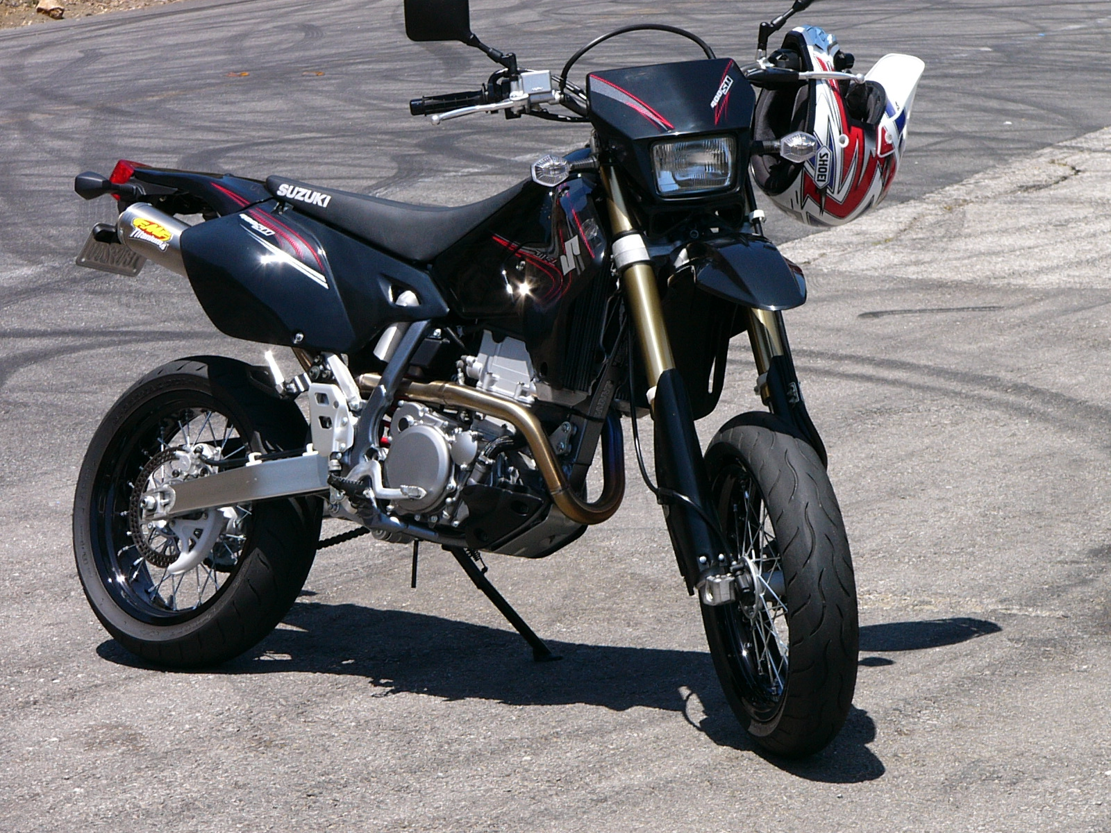 Supermoto is perfect out here